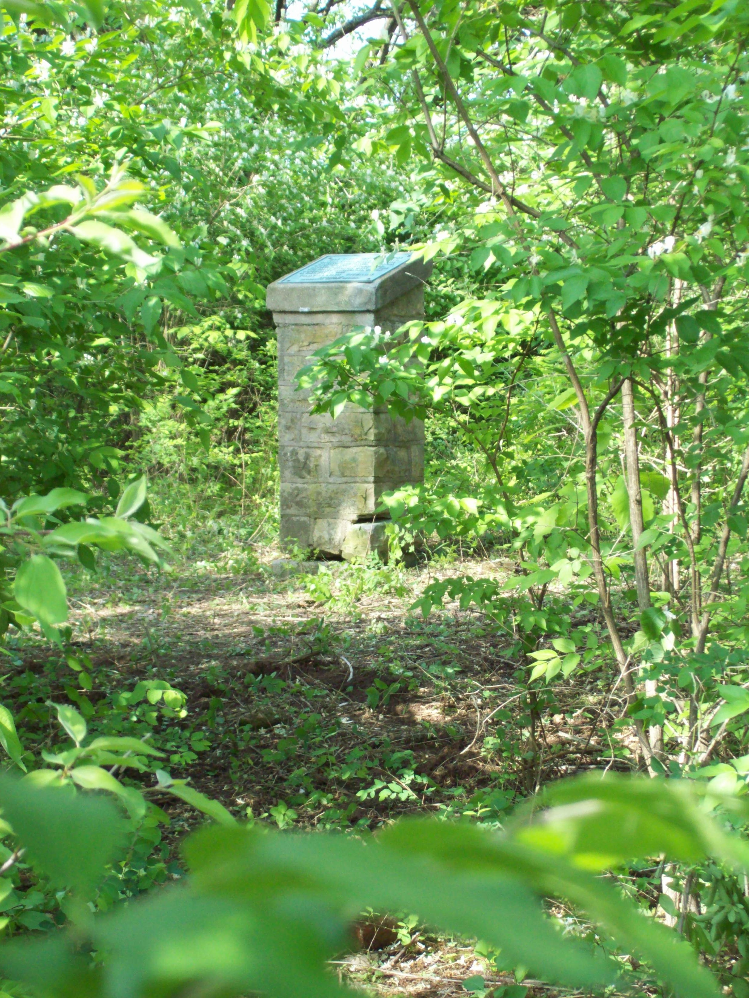 Monument erected atop the hill at Gilbert's Creek, Kentucky, where the famous "Travelling Church" built their first fortified hill church in the wilderness of pioneer Kentucky in 1782.